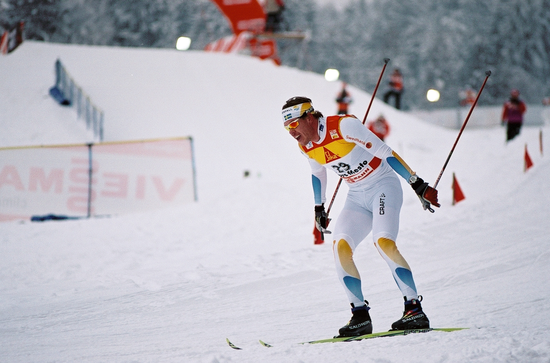 Swedish skier Mathias Fredriksson competing in the Tour de Ski in Czech Republic.